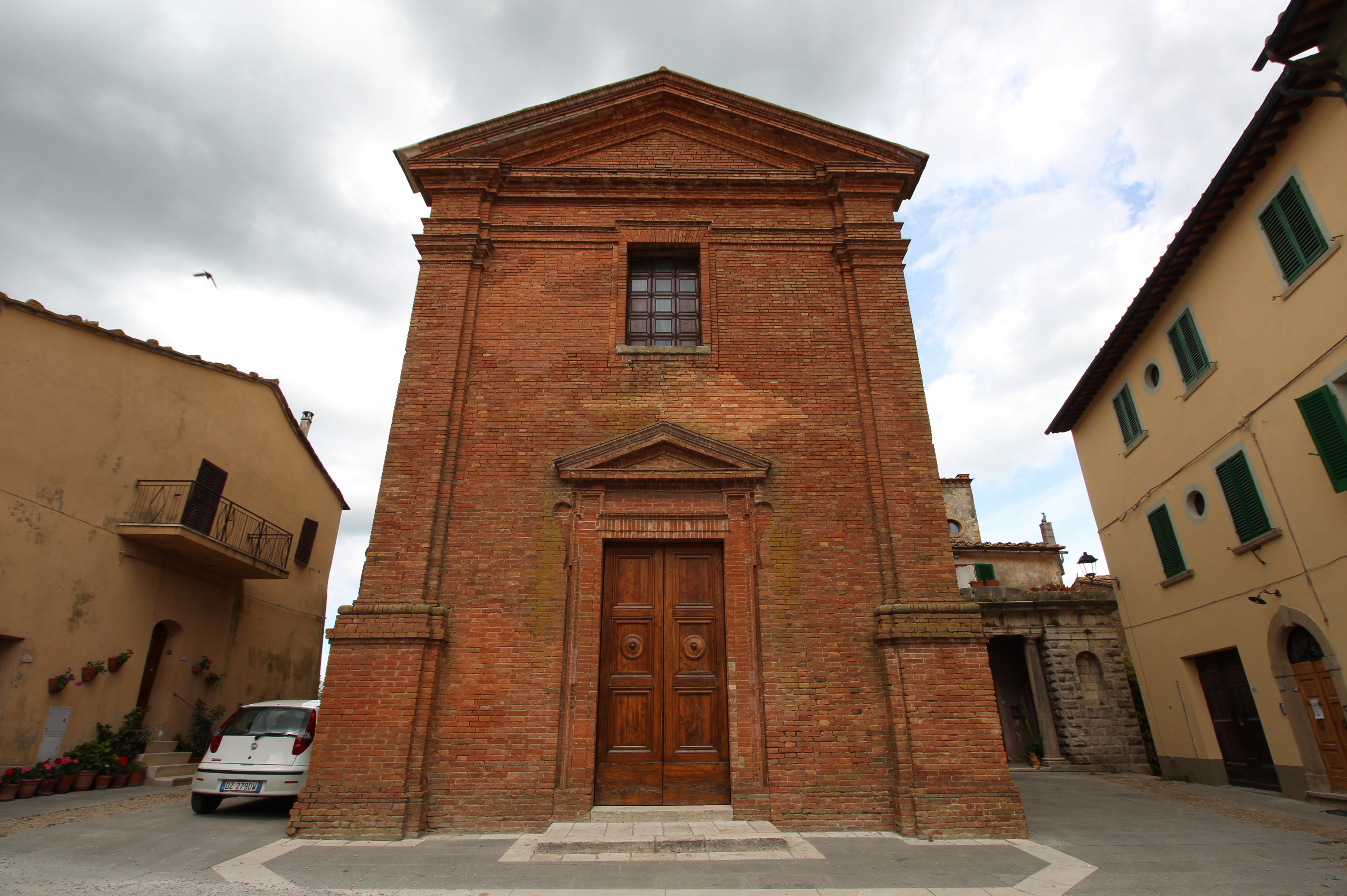 Church Chiesa del Crocifisso, Radicondoli, Province of Siena, Tuscany, Italy